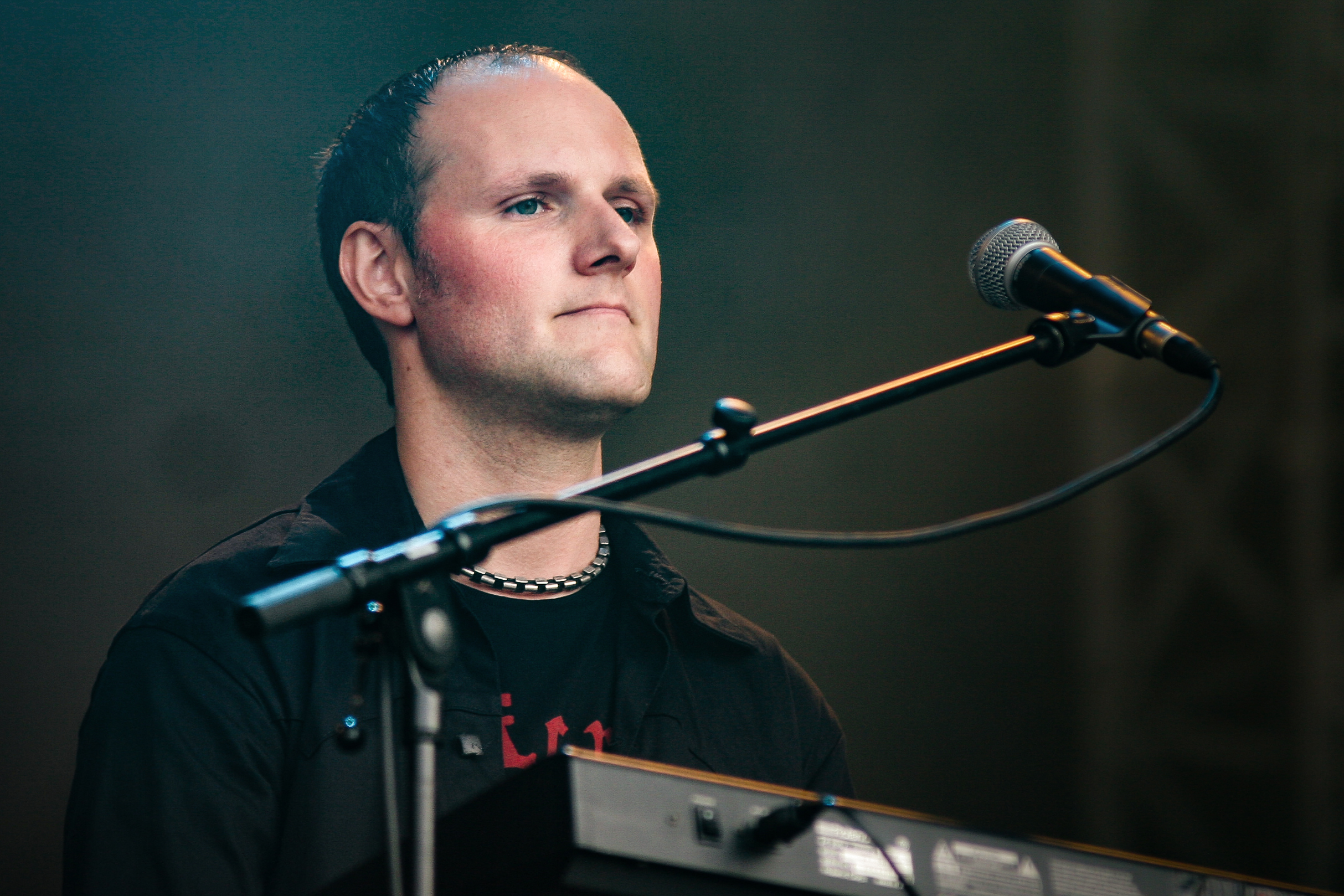 Henning Verlage with Unheilig at the Amphi Festival 2009 in Cologne.